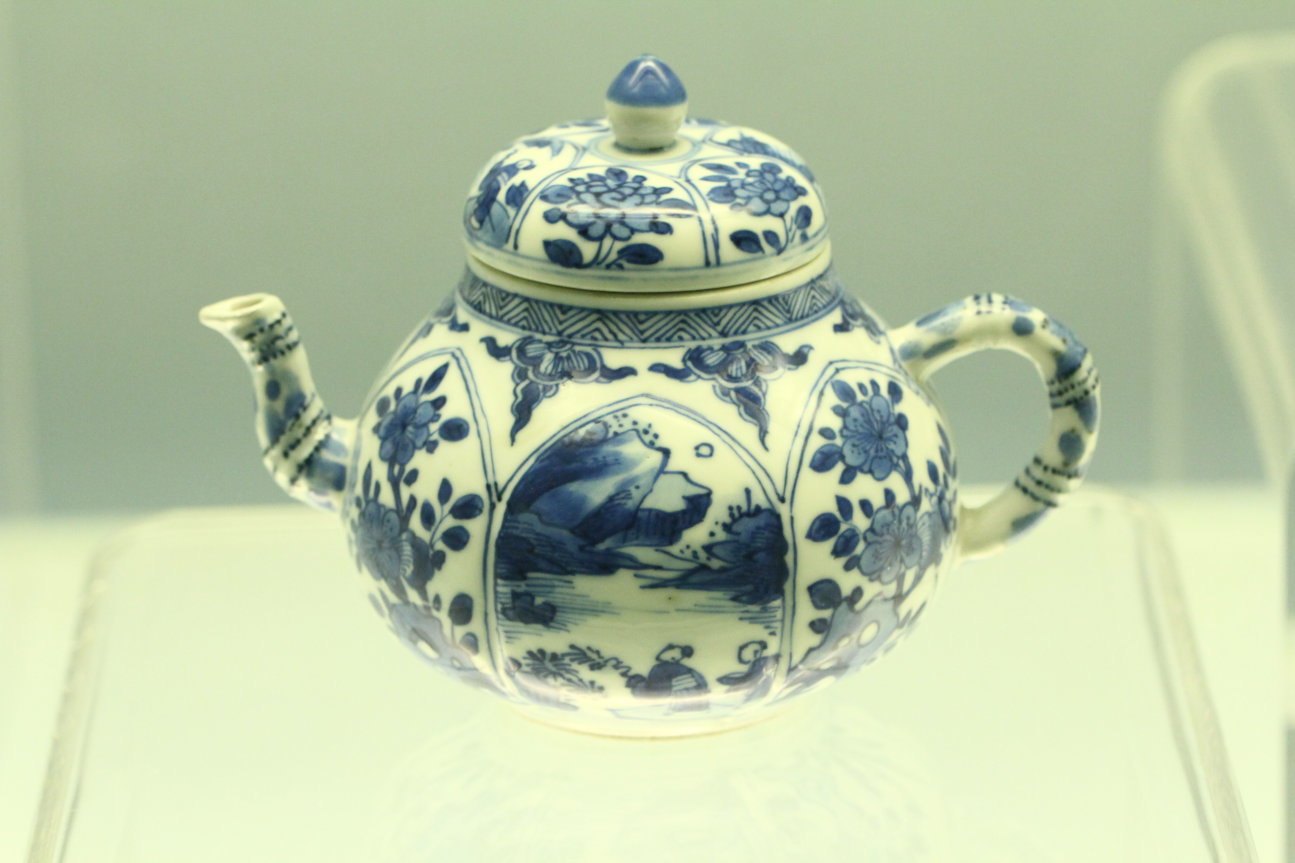 Blue-and-white lobed teapot with landscapes in panel. Jingdezhen Ware. Kangxi Reign (A.D. 1662-1722), Qing.